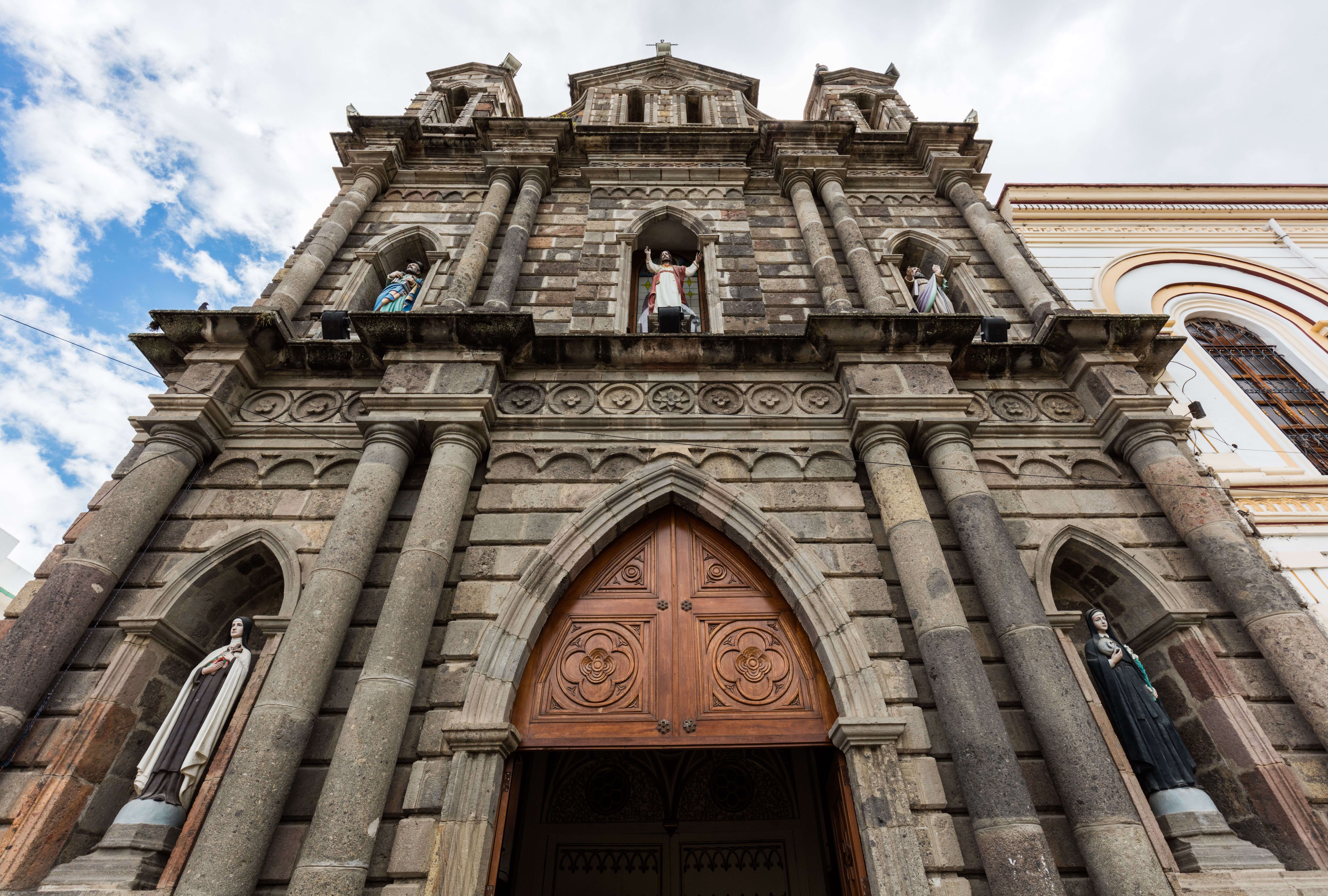 Episcopal church, San Antonio de Ibarra, Ecuador